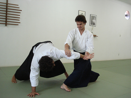 Aikido - NikkyoSenshin Dojo, 24/02/2007